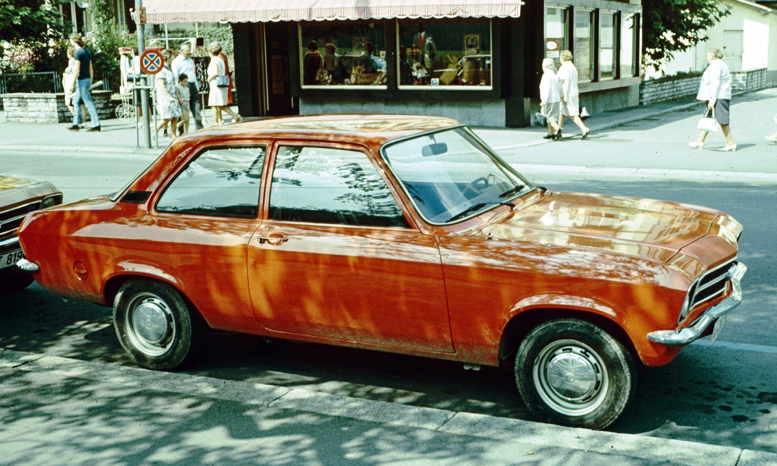 Opel Ascona 2 door shortly after launch in Interlaken